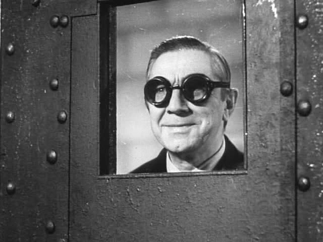 Bela Lugosi in "The Devil Bat" (1940), which is now in the public domain.